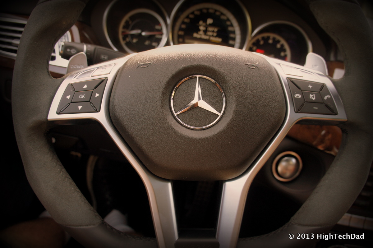 Photos from a 7-day test drive of the 2013 Mercedes CLS 63 AMG. More information and reviews can be found at